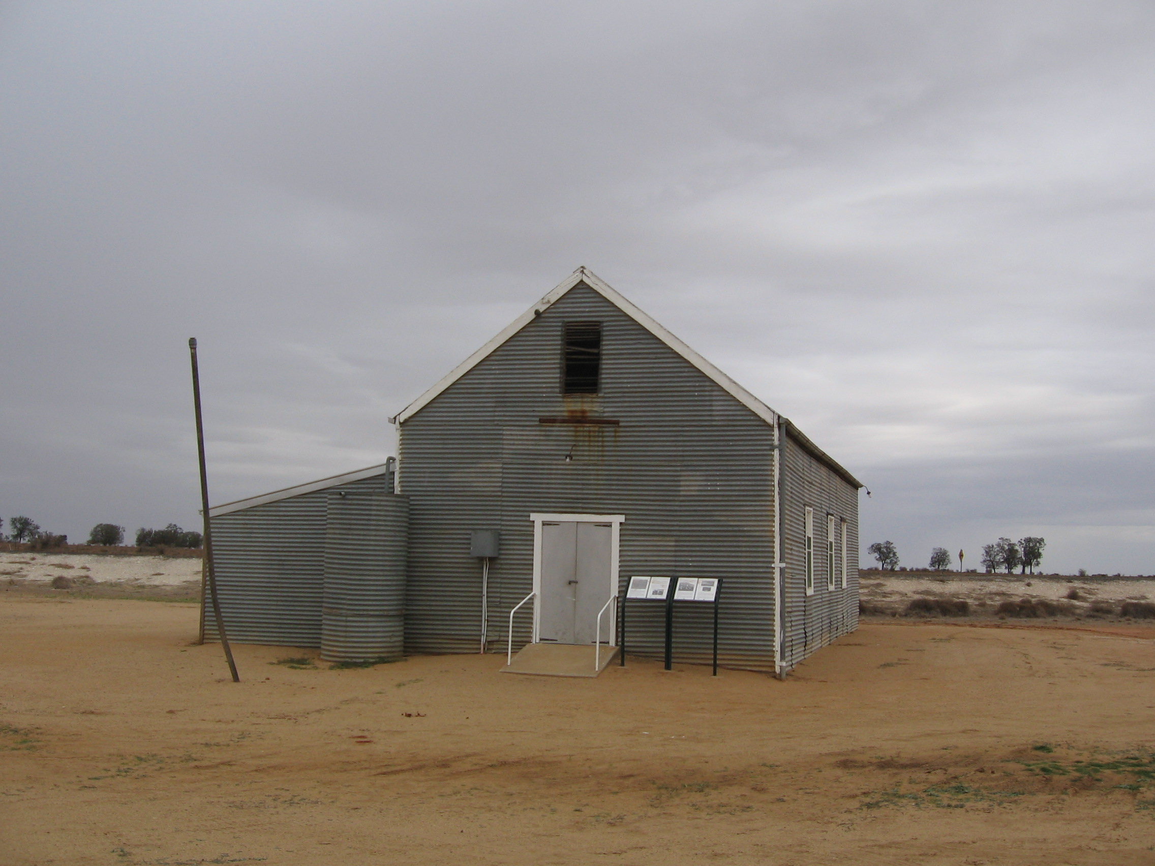 Public Hall at Gunbar, New South Wales